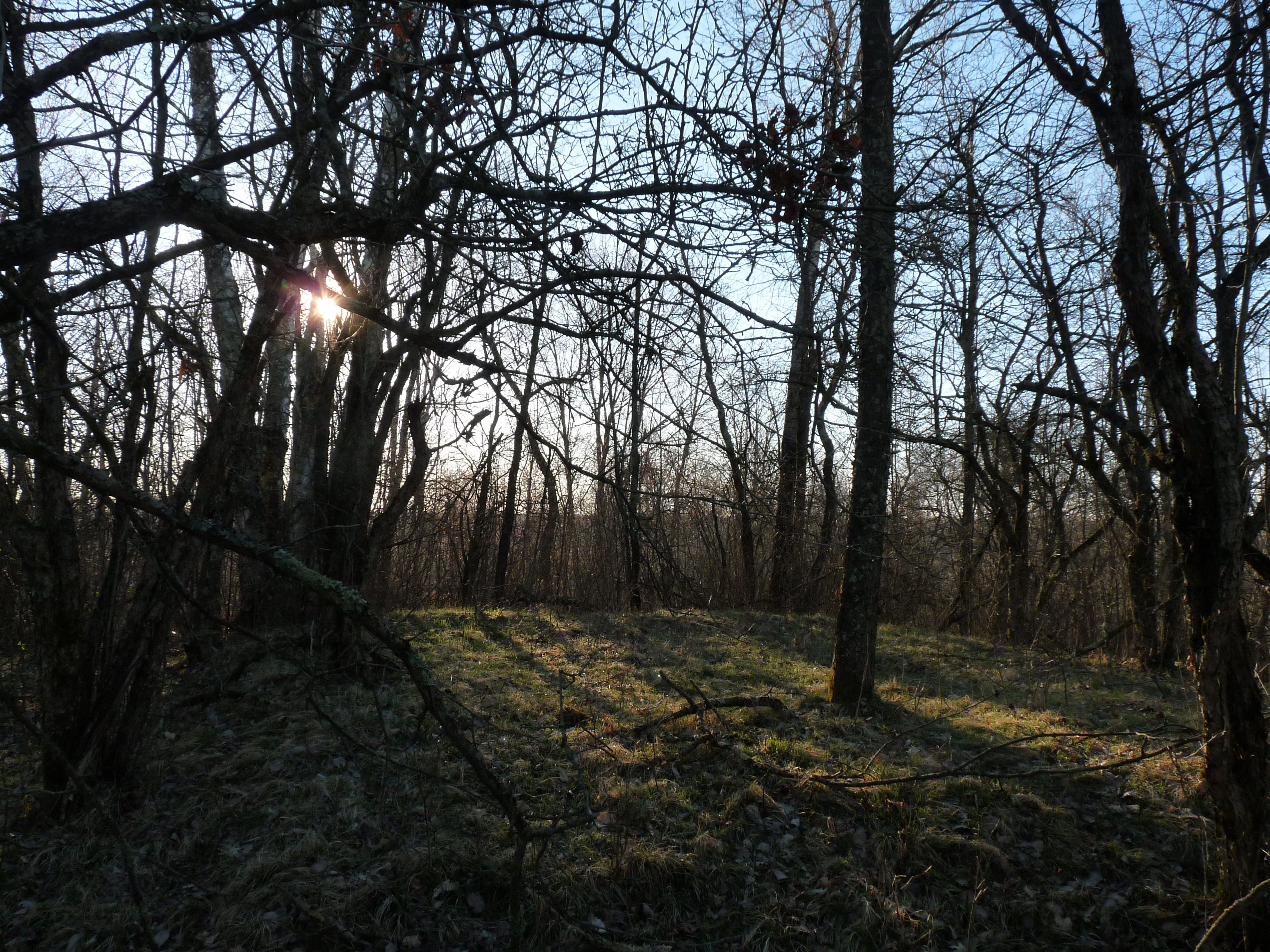 The footing where a cabin once stood at Big Indian Farms, in Taylor County, Wisconsin.